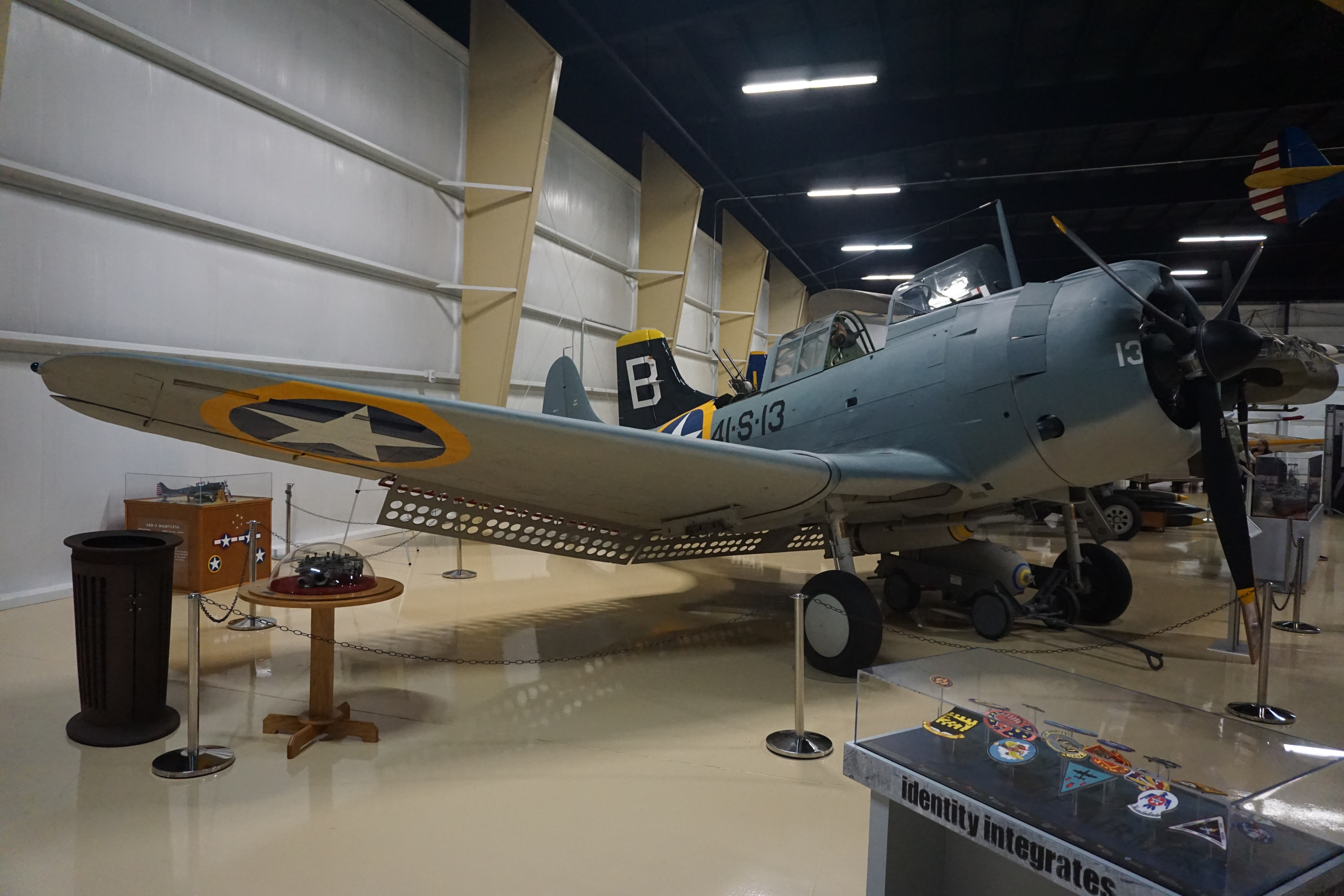 A Douglas SBD-3 Dauntless on display at the Air Zoo at Kalamazoo/Battle Creek International Airport in Portage, Michigan (United States).